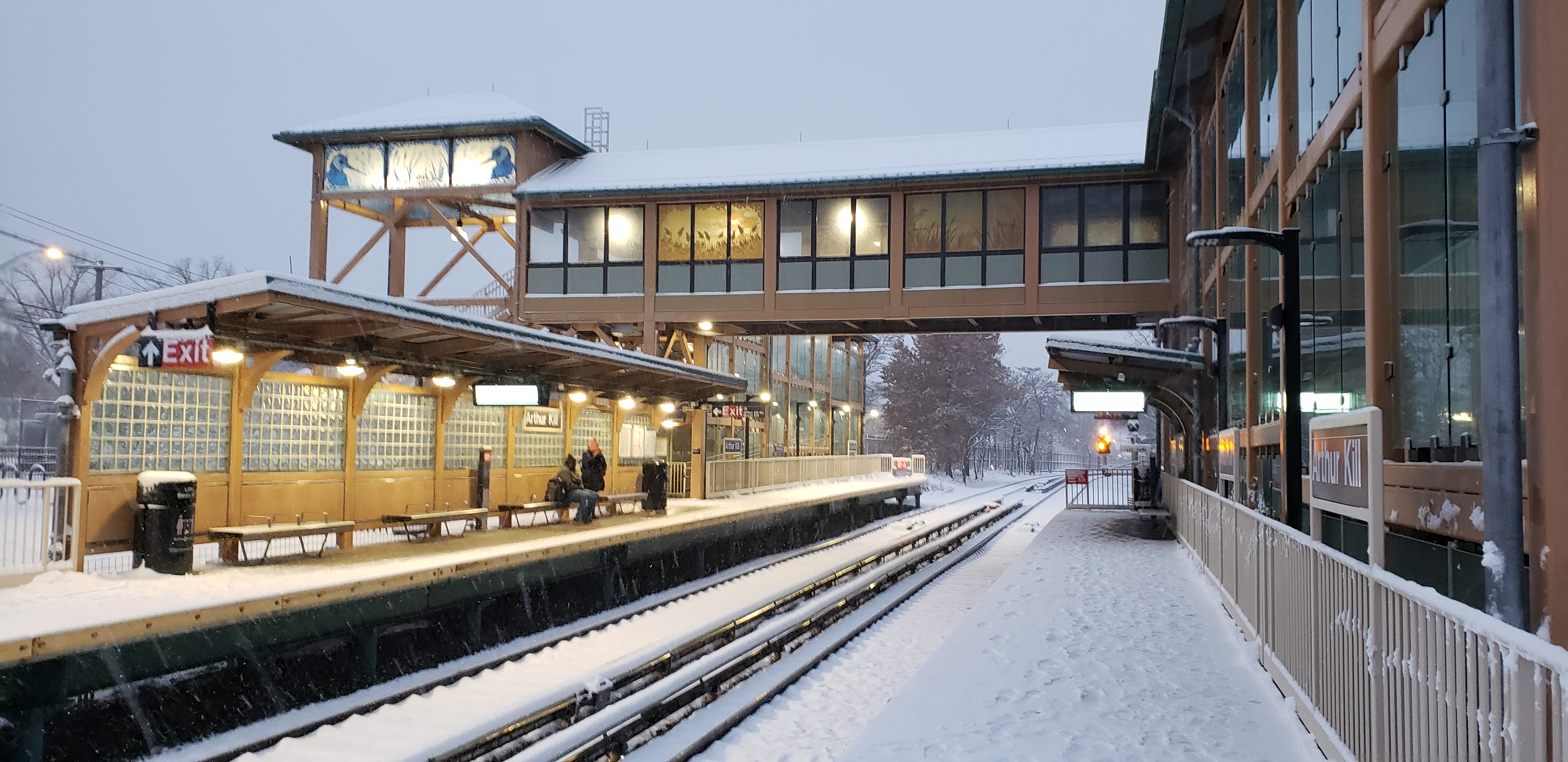 Arthur Kill Station on the Staten Island Railway in the snow.